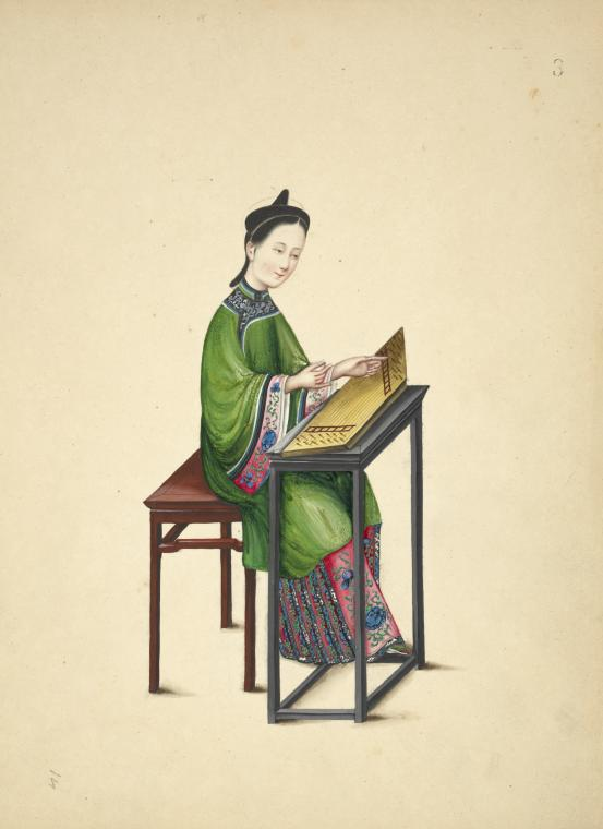 China watercolour from 1800s. Woman playing a zheng.